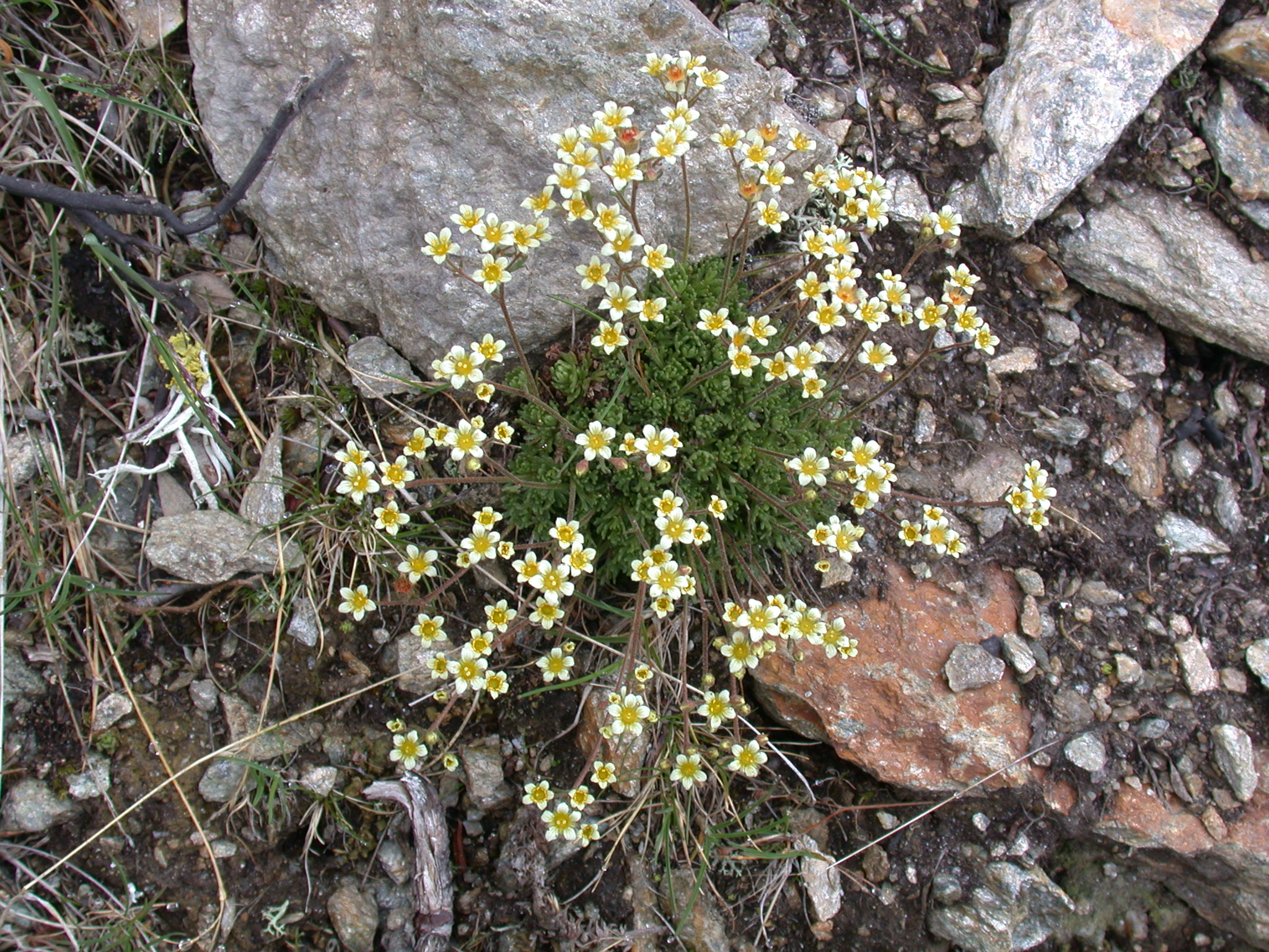 Saxifraga exarata s.l. (Saxifragaceae); between Kreuzboden and Saas Almagell, Canton of Valais, Switzerland